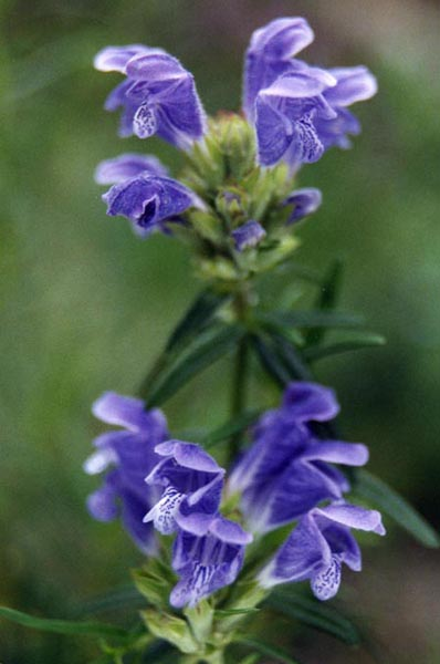 Dracocephalum ruyschiana